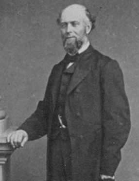 Photograph of John Shertzer Hittell.